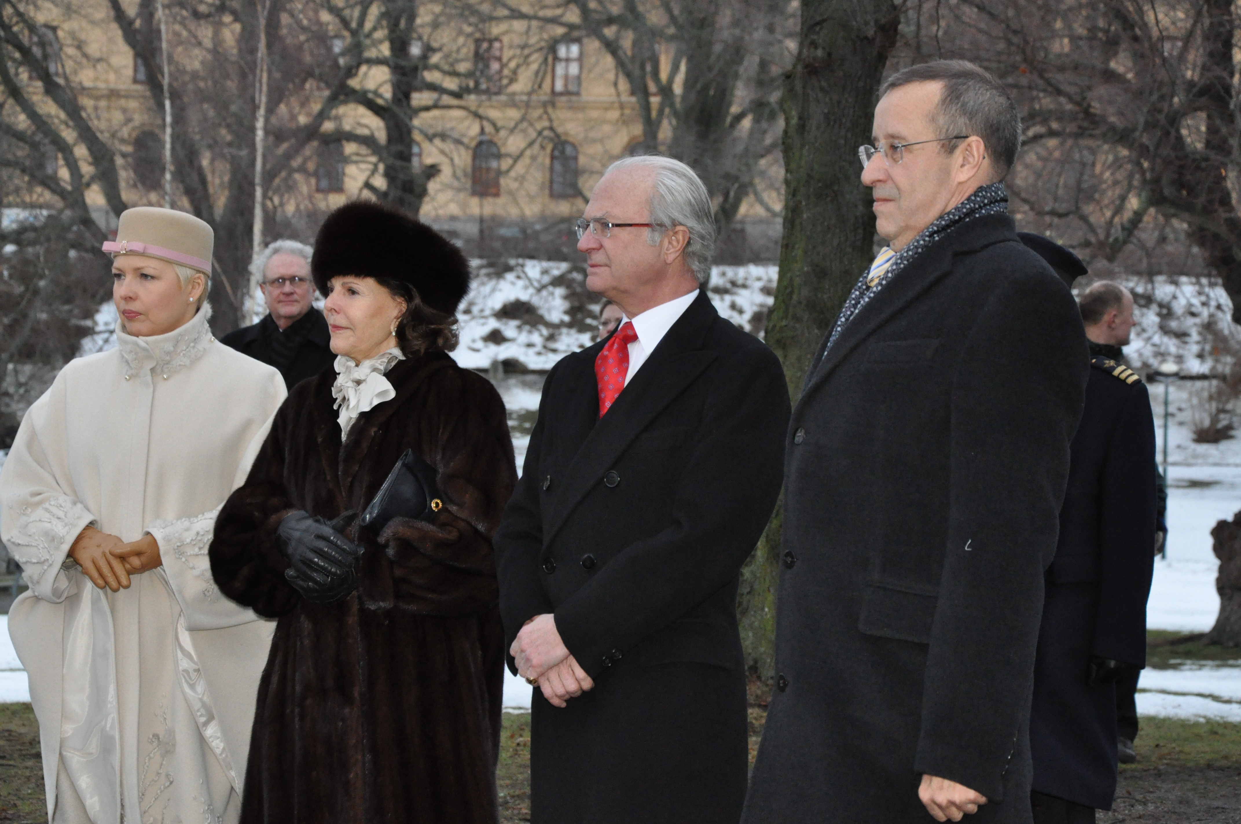 Attending a ceremony at Freedom Gate, to remember that Estonians was welcomed to Sweden during the second world war. Somng by Estonian School. State visit to Stockholm, Sweden, 19-19-20-january-2011